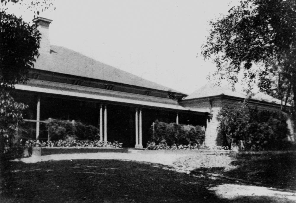 Middenbury a residence at Toowong, 1932